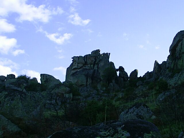 Marko's Towers fortress near Prilep, Republic of Macedonia